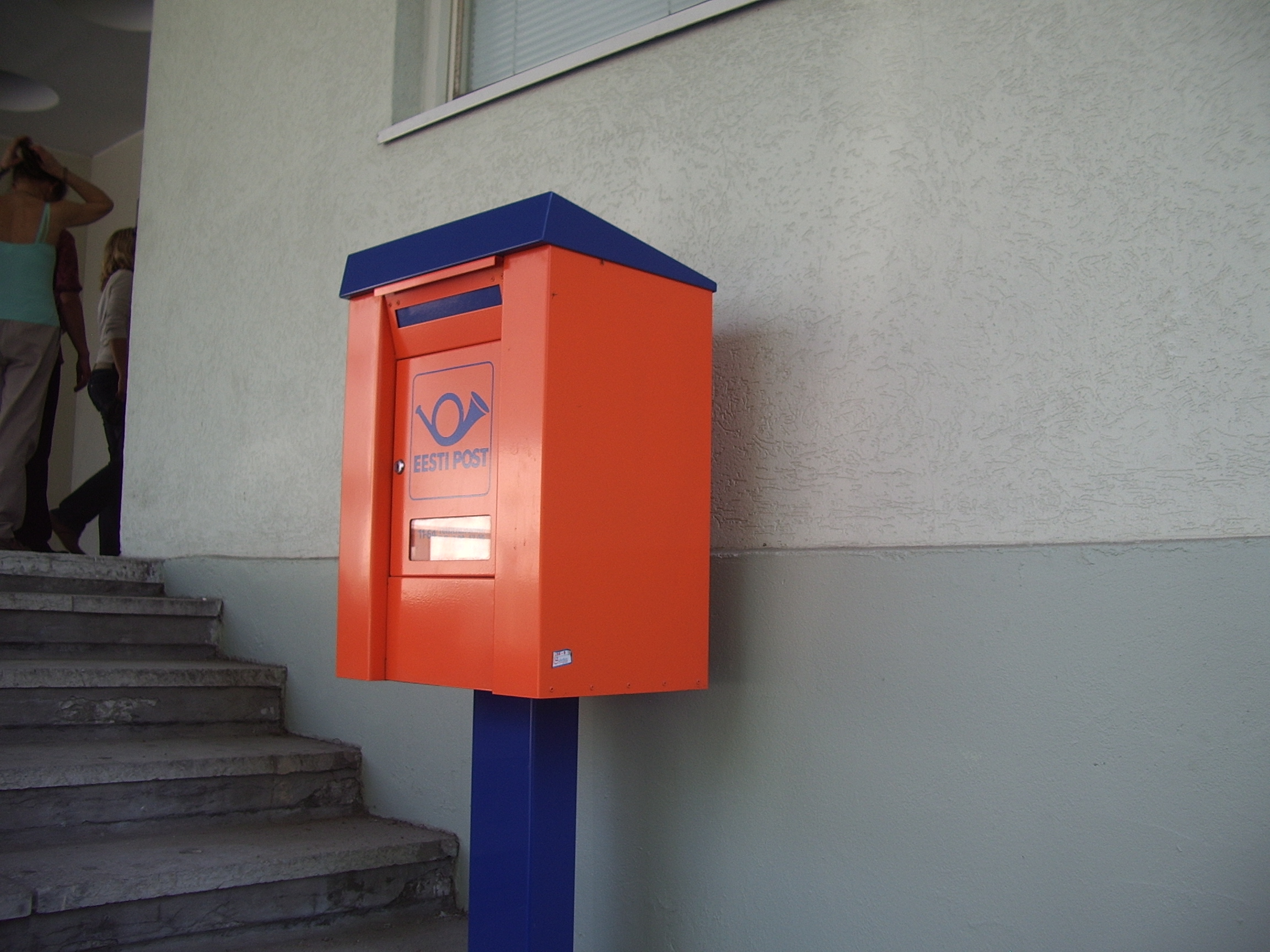 A mailbox in front of Beach hotel, Pärnu town, Estonia